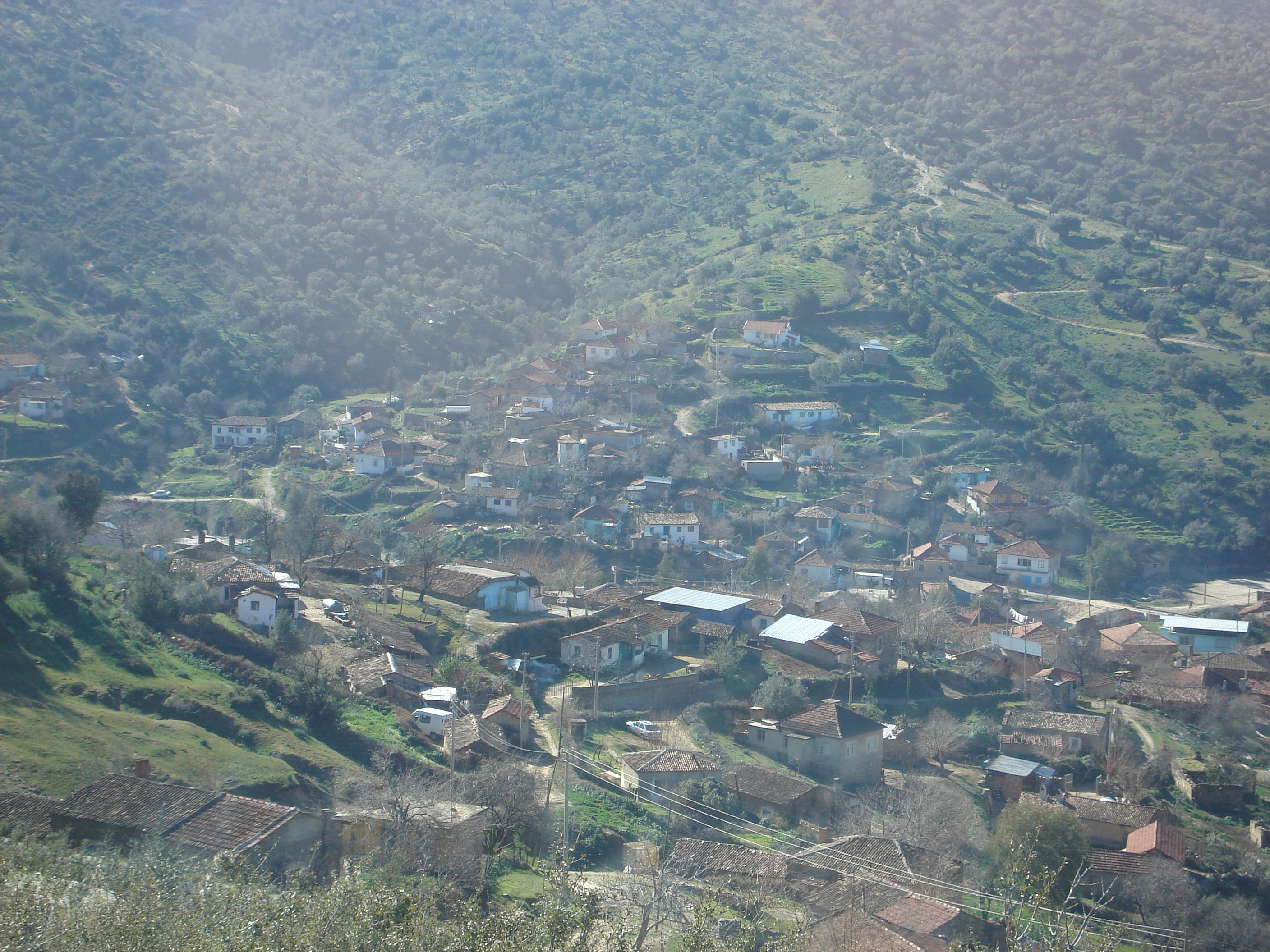 General view of Şahnalı village, Efeler, Aydın.